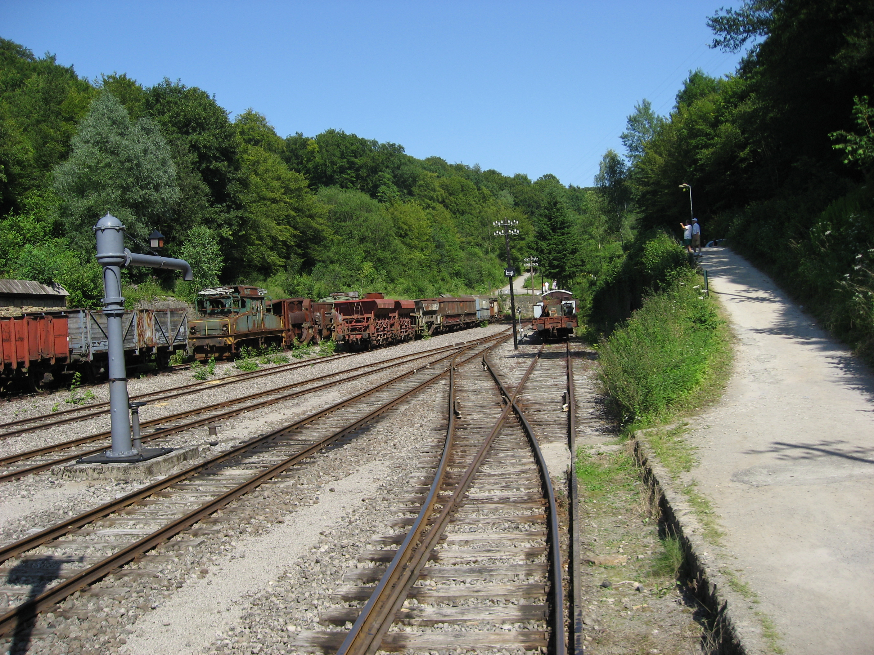 End of line in Fond de Gras